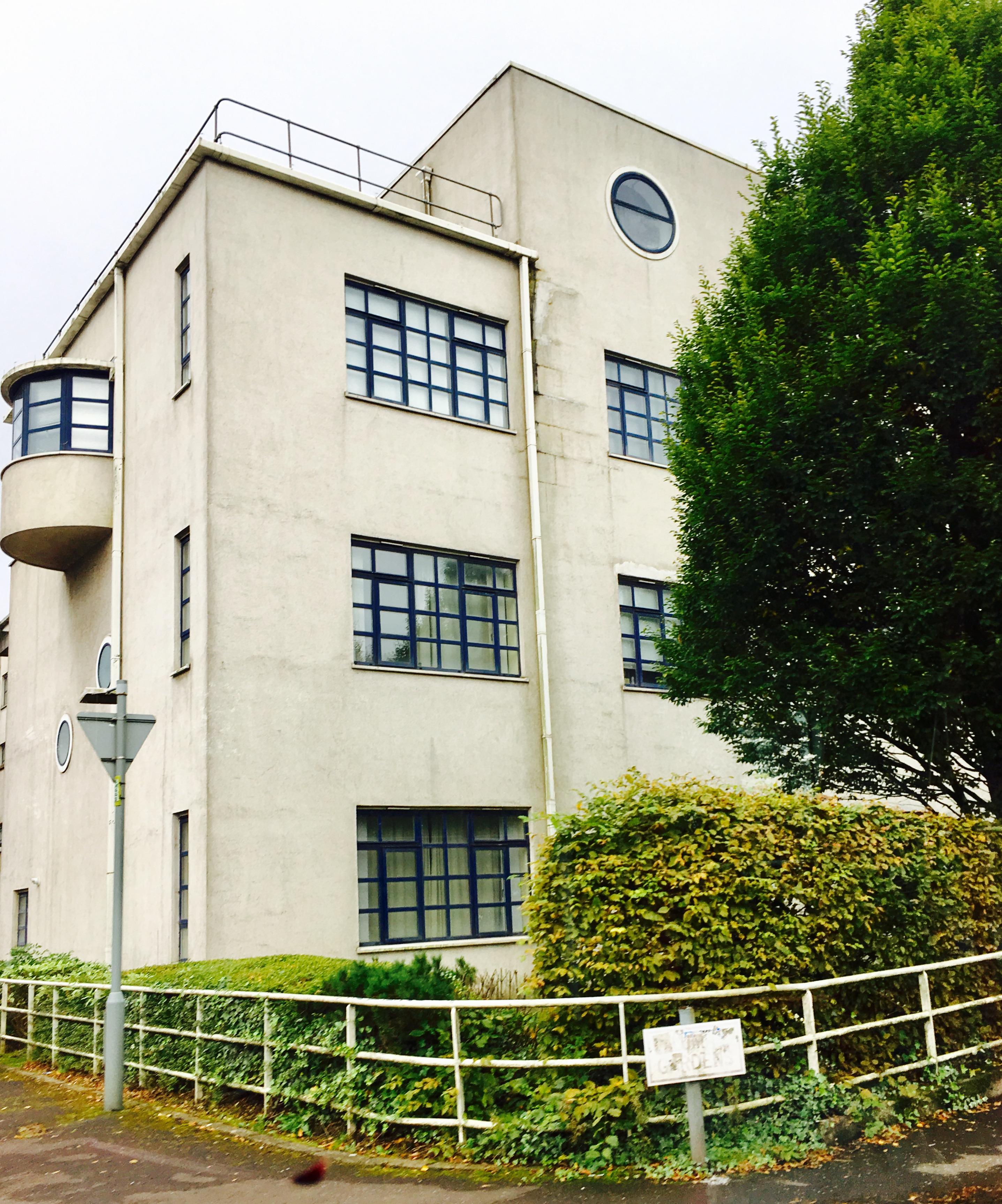 480 Shieldhall Road, Luma Light Factory Wikidata has entry Q17811184 with data related to this item.